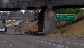 Southern city limits sign for the city of Grand Terrace, California as seen from the northbound lane of Interstate 215. View looking northeast.The photograph was taken by the uploader using a Nikon Coolpix e3200 digital camera and edited (crop) using ArcSoft PhotoStudio 5.5